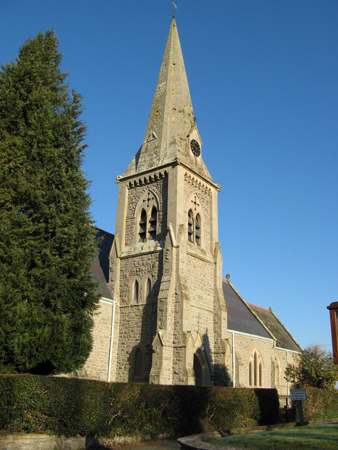 St Tysul's Parish Church A prominent feature in Llandyssil.